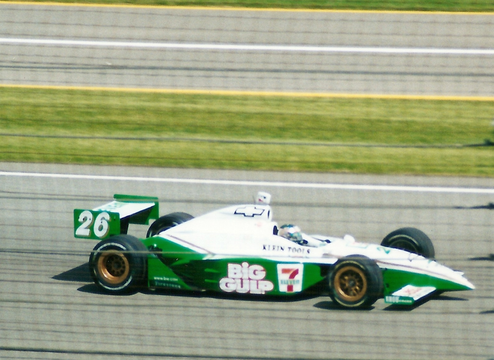 Paul Tracy during the 2002 Indianapolis 500